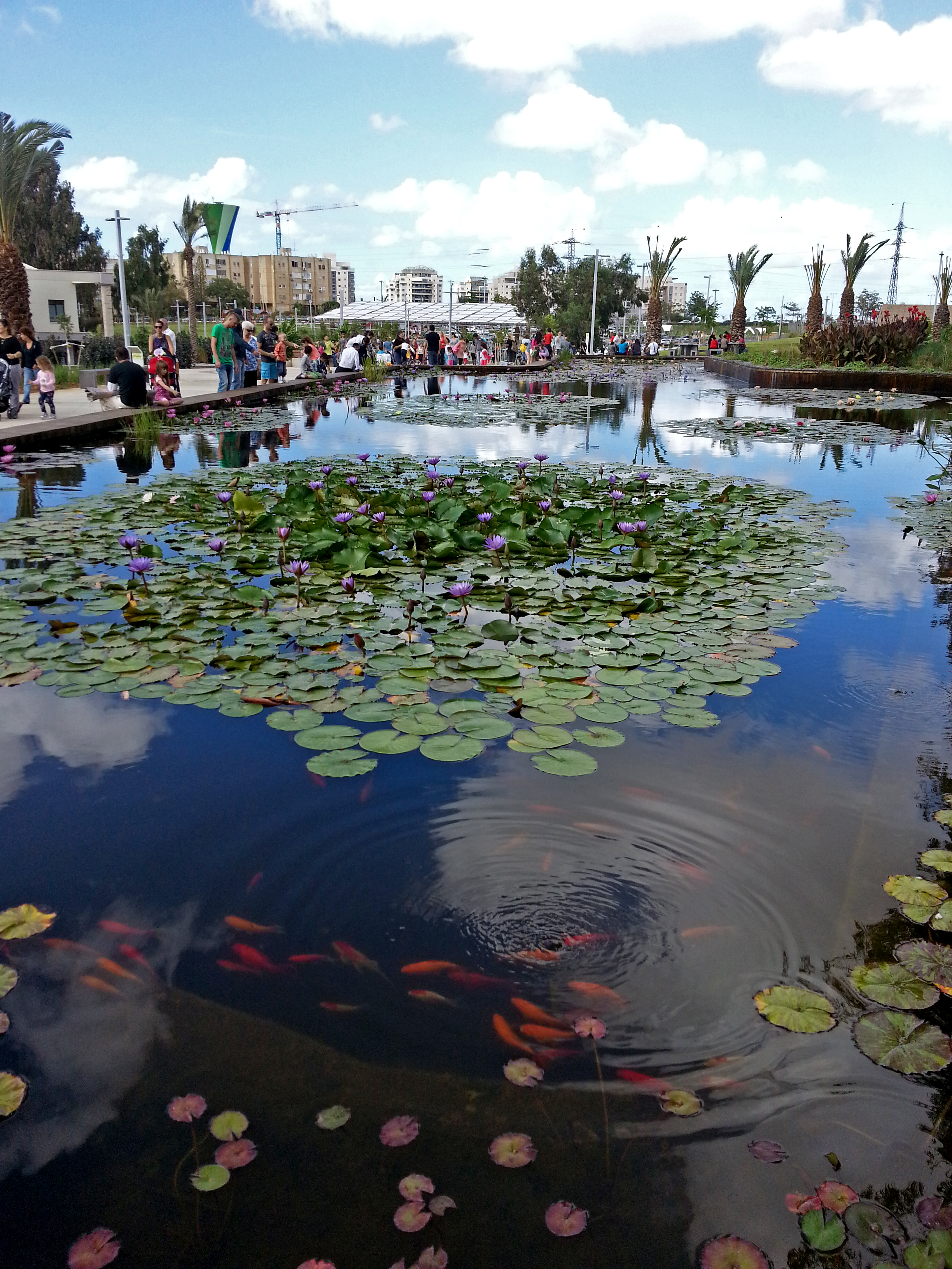 Gan BeIvrit (Hebrew Language Park), Rishon LeZion, Israel